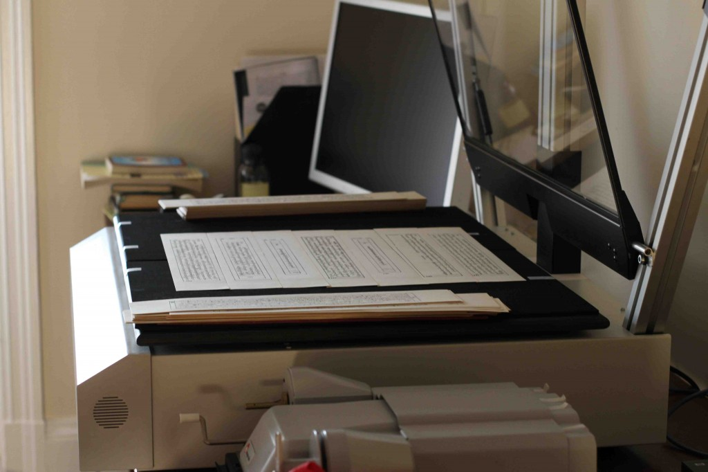 Tibetan Buddhist Resource Center. Tibetan texts scanned by a planetary book scanner; microfilm scanner on the bottom right.